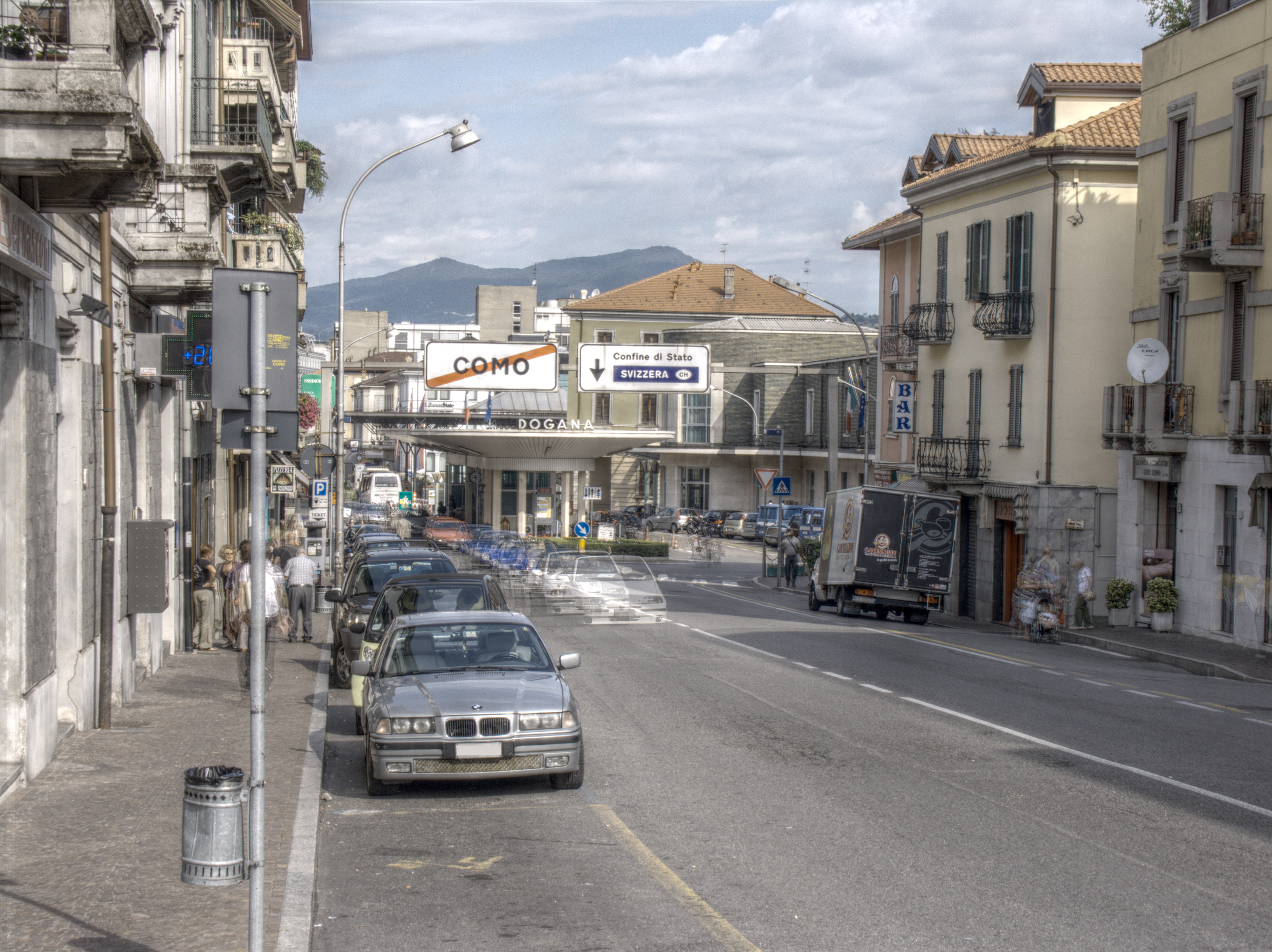 The Ponte Chiasso - Chiasso custom taken from the Italian side. Note: This image has been modified to hide away the car's plate.